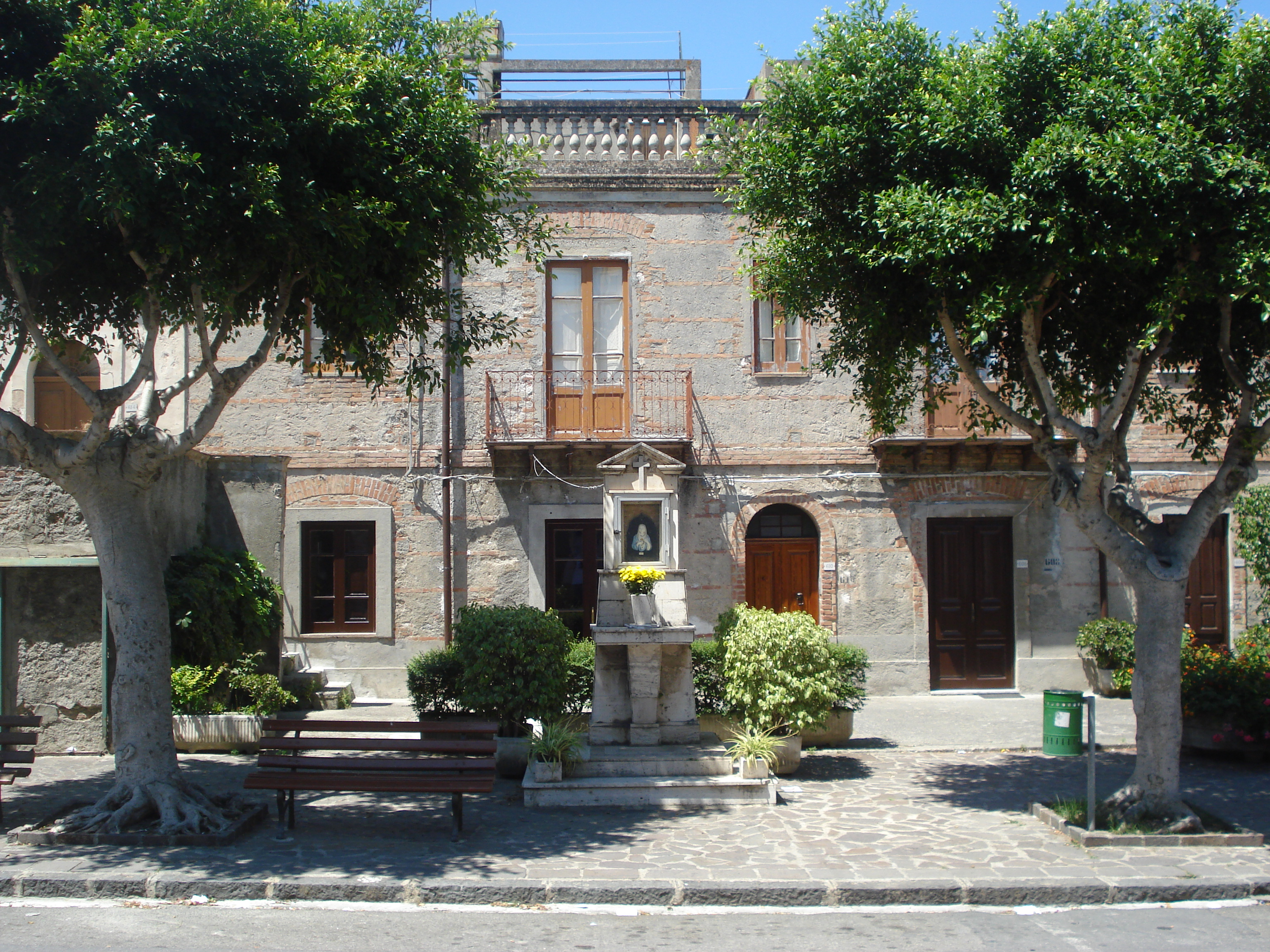 View of the Torregrotta historic center: the shrine of Our Lady of Tears, religious artifact made ​​in 1957 in which the wives leave their bouquet as a sign of devotion. Torregrotta, Italy.